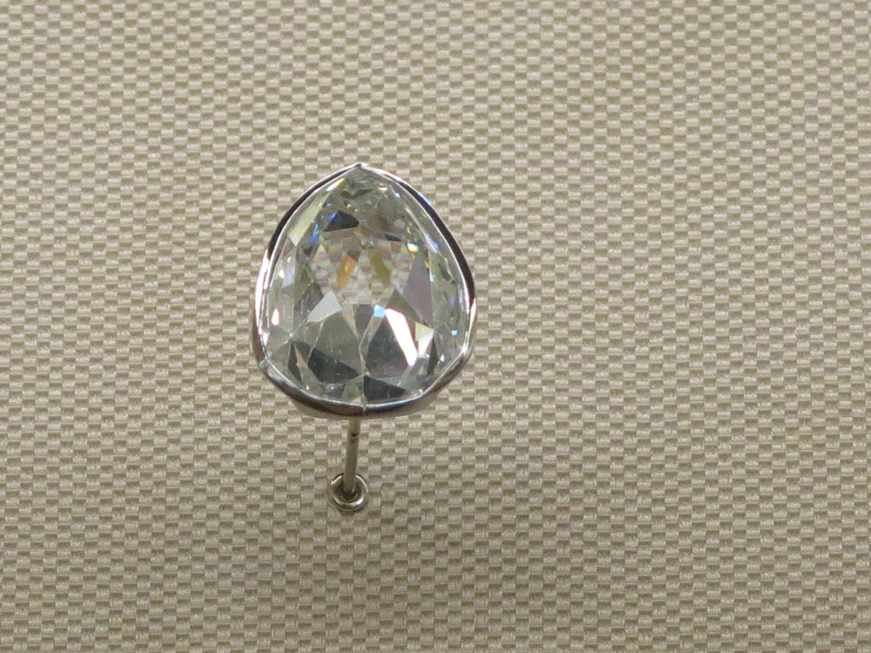 Sancy Diamond. Apollo gallery of Louvre museum (Paris, France).